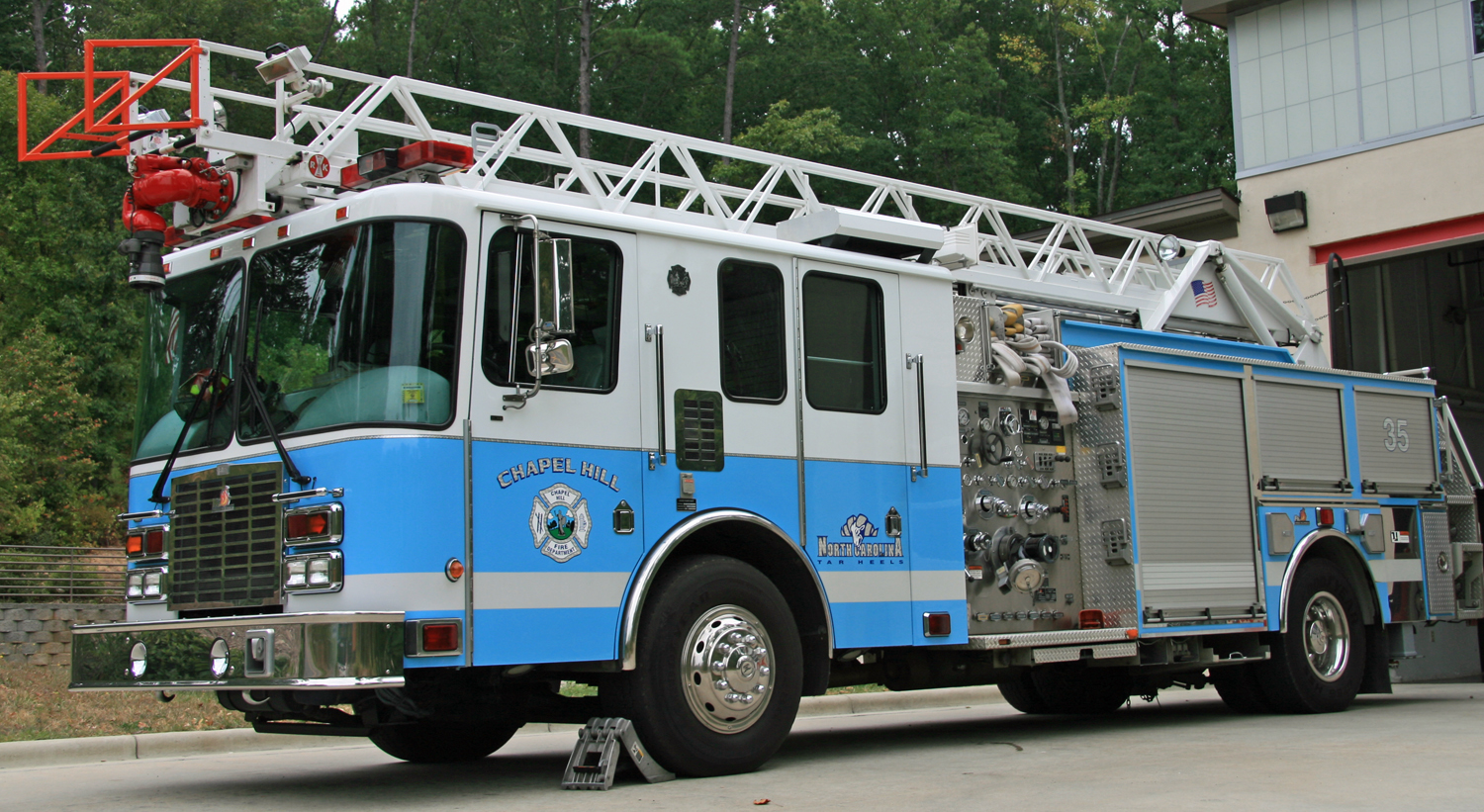 Carolina Blue fire truck located in Chapel Hill, NC.